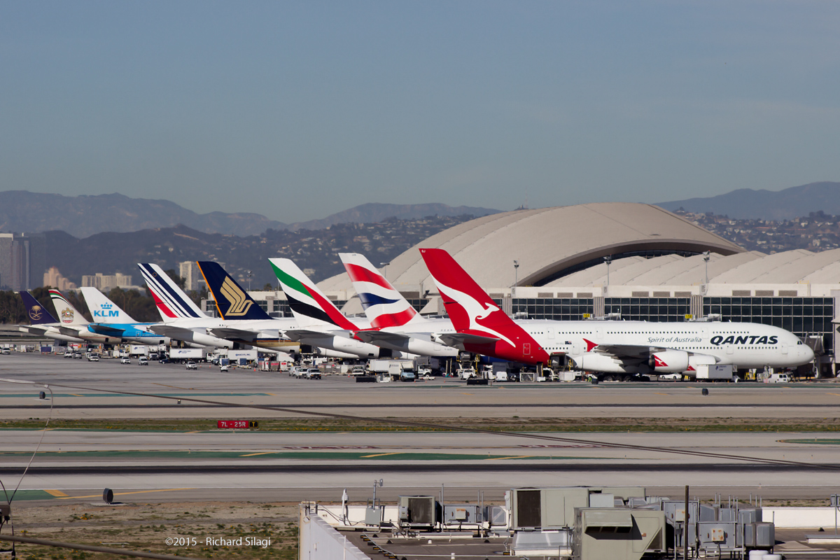 LAX Tom Bradley International Terminal with jumbos lined up from all over the world in January 2015